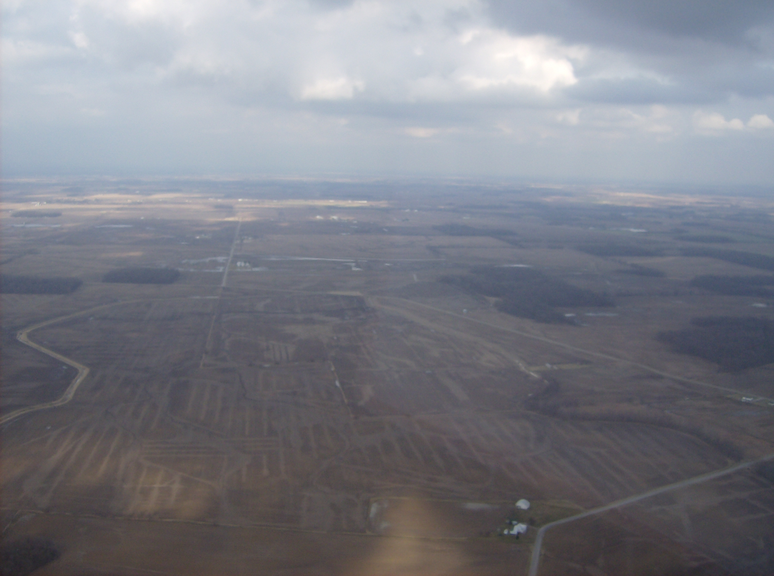 Countryside in northern Jefferson Township, Fayette County, Ohio, United States. Straight road in distance is Red Bud Road at its southwestern end. Picture taken from a Diamond Eclipse light airplane at an altitude of 2,400 feet MSL and a bearing of approximately 34º.